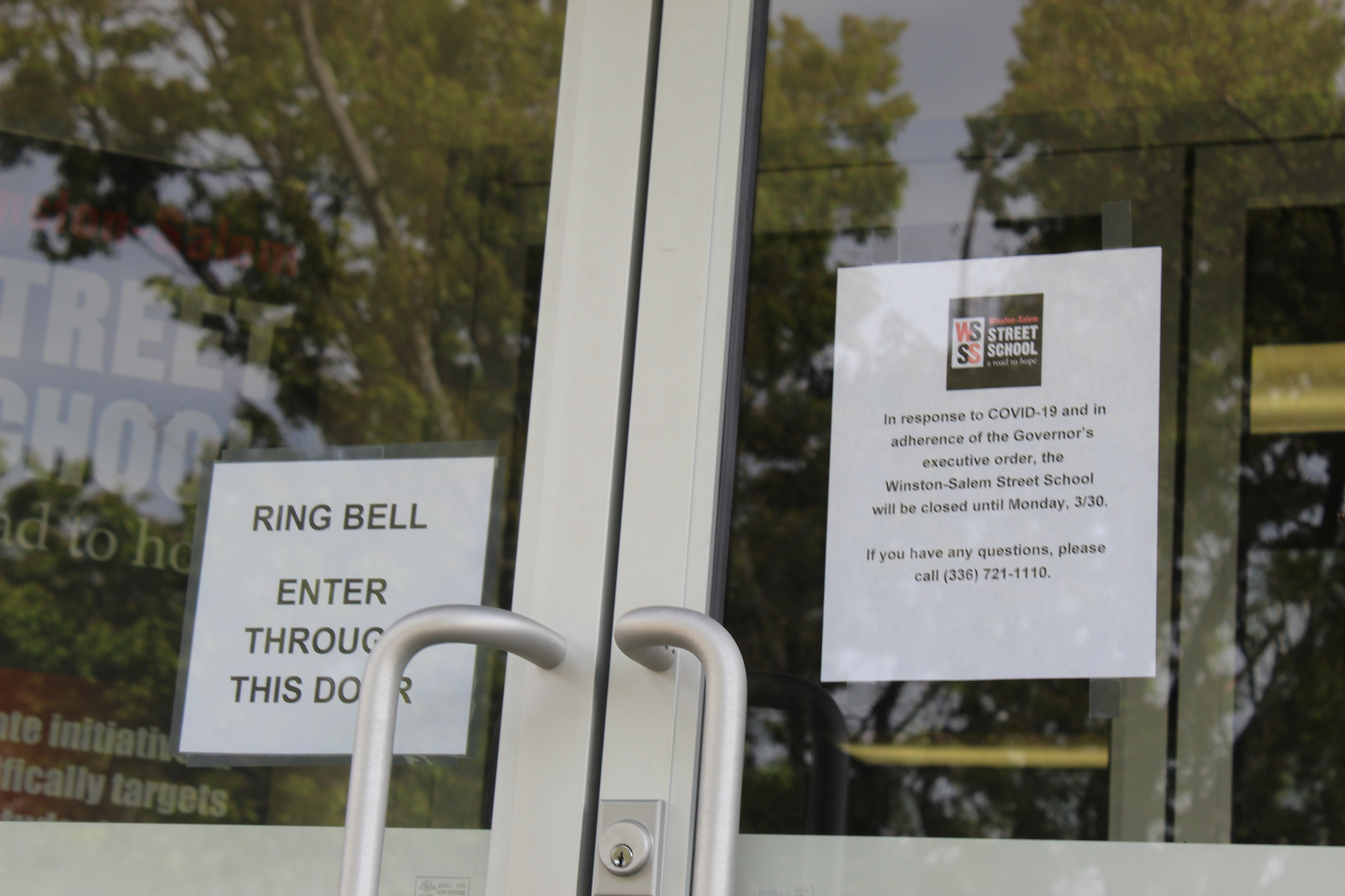 Winston-Salem Street school has been temporarily closed because of the coronavirus